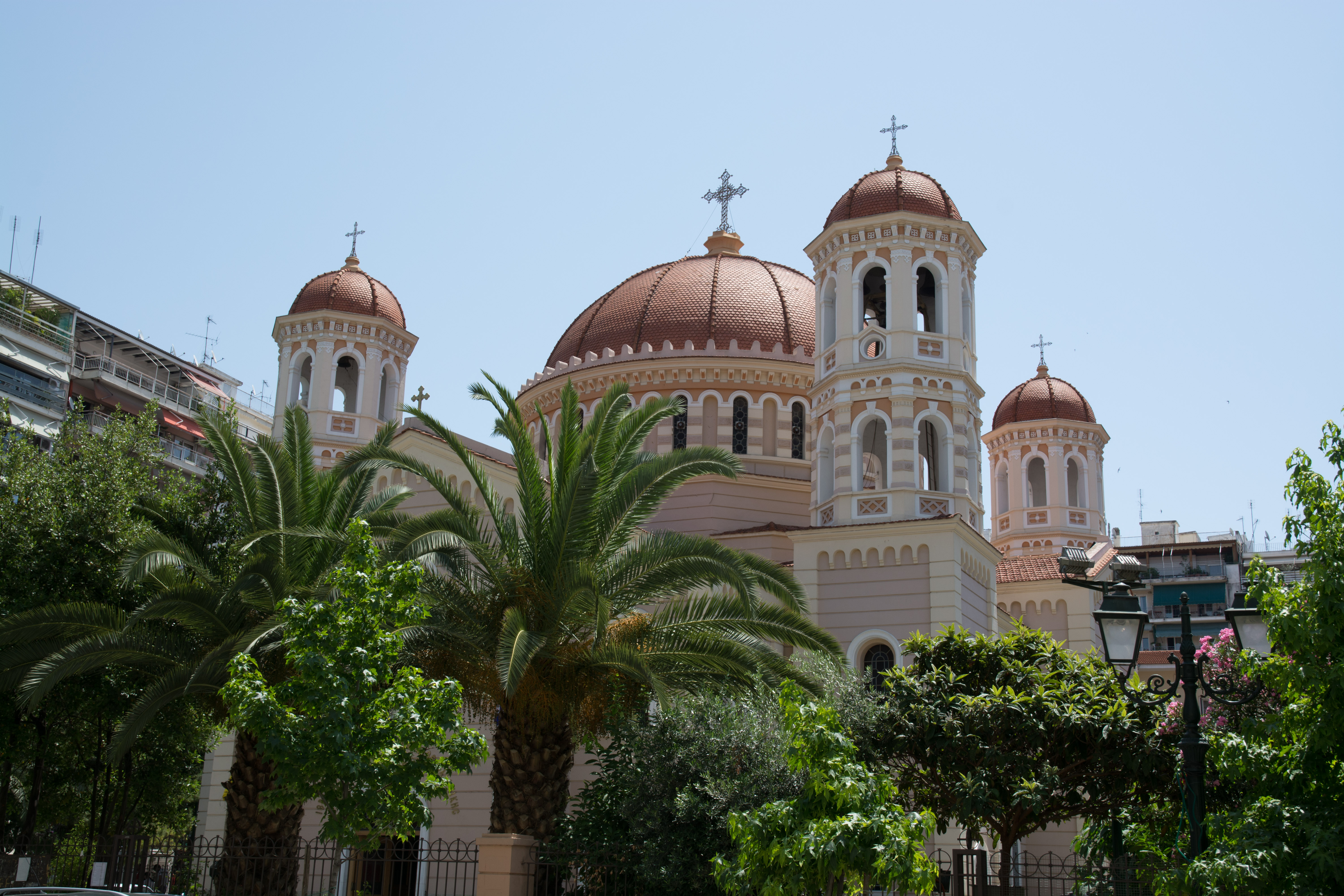 Θεσσαλονίκη 2014 (The Metropolitan Church of Saint Gregory Palamas)